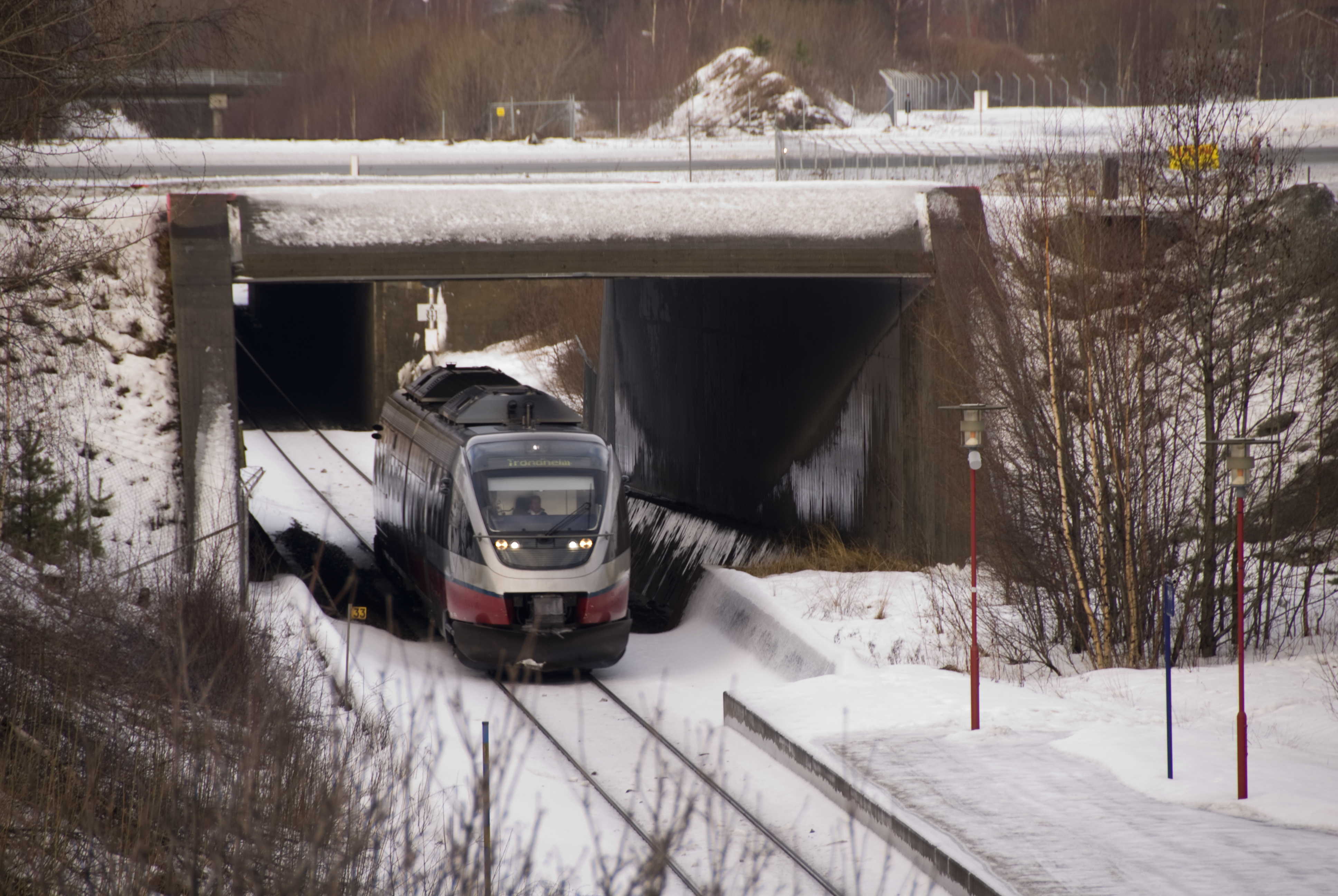 Norwegian State Railways Class 93 running through the Værnes Tunnel underneath the taxiway at Trondheim Airport, Værnes